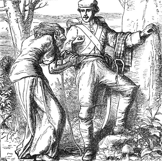 From 'Andersens Sproken en vertellingen' by Hans Christian Andersen, Titia van der Tuuk (ed.) and Simon Jacob Andriessen (trans.). Gebroeders E. & M. Cohen, Nijmegen - Arnhem. Illustrated by Alfred Walter Bayes (1832-1909) and engraved by the Dalziel Brothers (Edward Daziel, 1817-1905; George Daziel, 1815-1902).